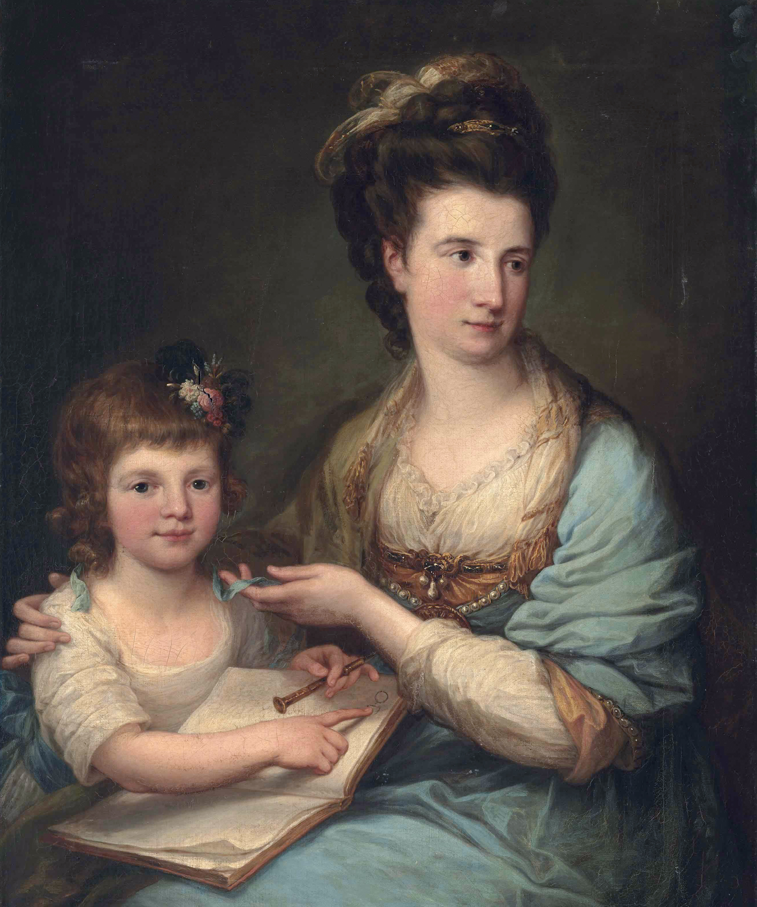 Anne Stewart, née Dashwood, Countess of Galloway (1743-1830) with her daugther, Lady Susan Stewart, later Duchess of Marlborough (1767-1841)